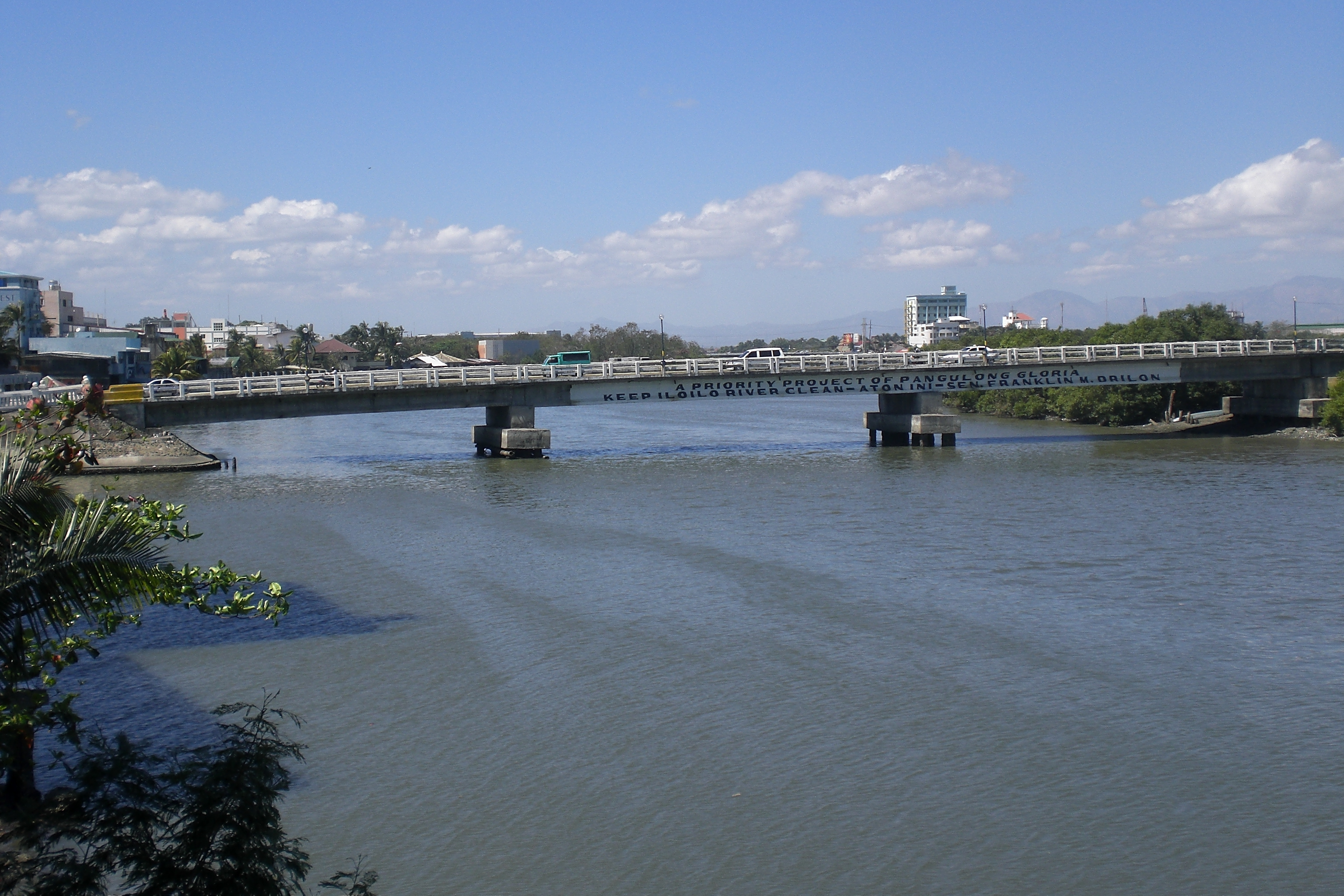 Jalandoni Bridge in Iloilo, Philippines